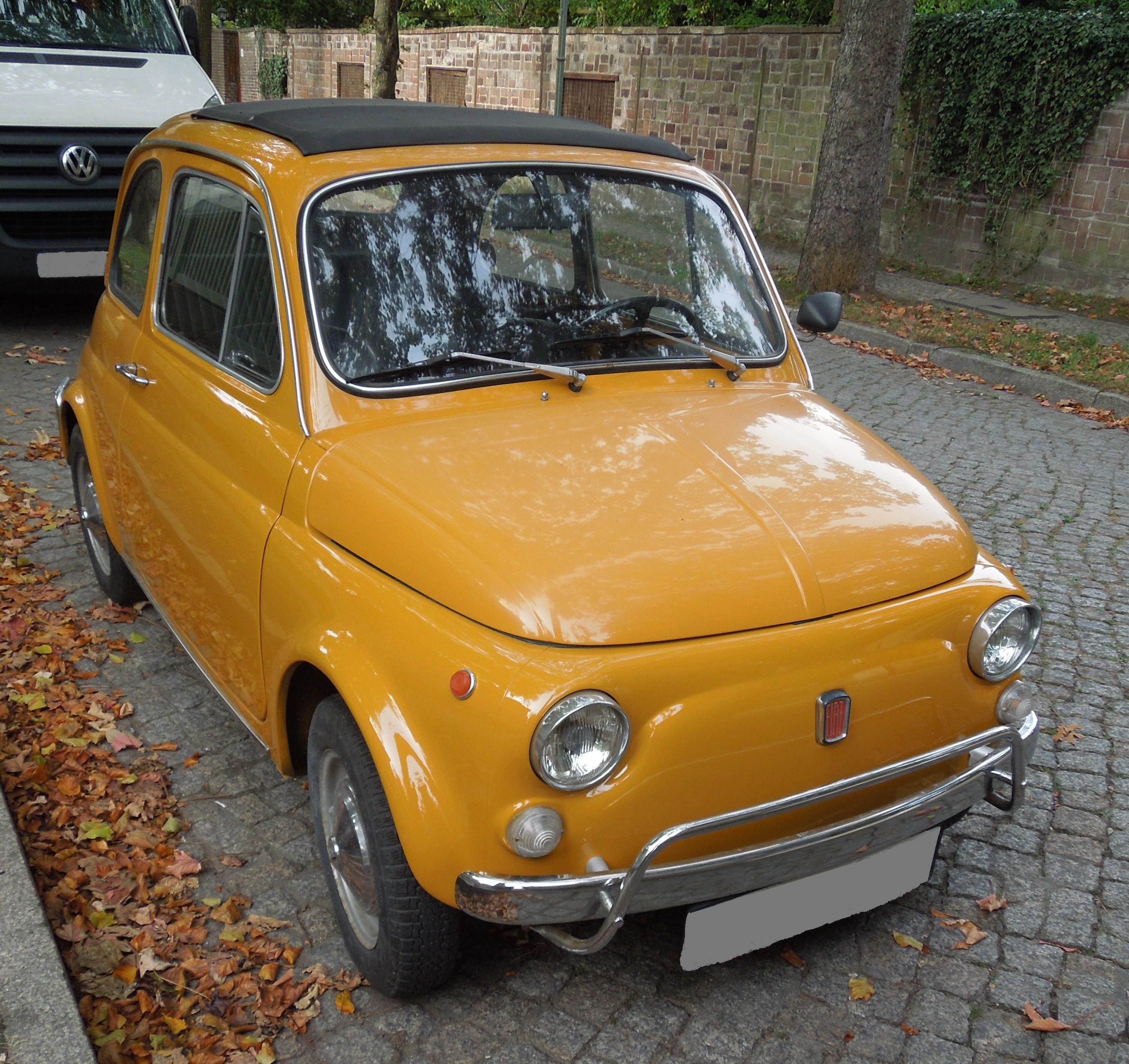 Der Fiat 500 der Jahre 1957 bis 1975 war ein Kleinwagen der Marke Fiat. In Abgrenzung zu seinem gleichnamigen Vorgänger, dem Topolino, wurde er Nuova 500 genannt; der Neue und der Topolino hatten technisch keine Gemeinsamkeiten. Von 1957 bis 1977 wurden einschließlich der Kombiversion „Giardiniera“ und einiger Sondermodelle 3.702.078 Fiat 500 gebaut. The Fiat 500 (Italian: cinquecento, Italian pronunciation) is a car produced by the Fiat company of Italy between 1957 and 1975, with limited production of the Fiat 500 K estate continuing until 1977. The car was designed by Dante Giacosa. Launched as the Nuova (new) 500 in July 1957, it was a cheap and practical town car. Measuring only 3 metres (~10 feet) long, and originally powered by an appropriately-sized 479 cc two-cylinder, air-cooled engine, the 500 redefined the term "small car" and is considered one of the first city cars.